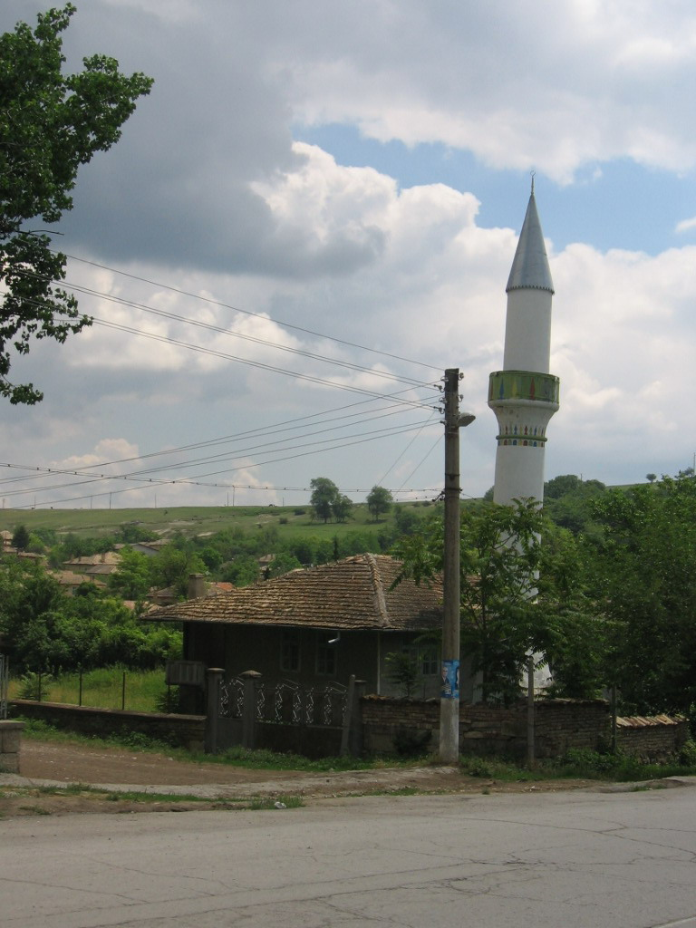 The mosque in village Gagovo, Bulgaria